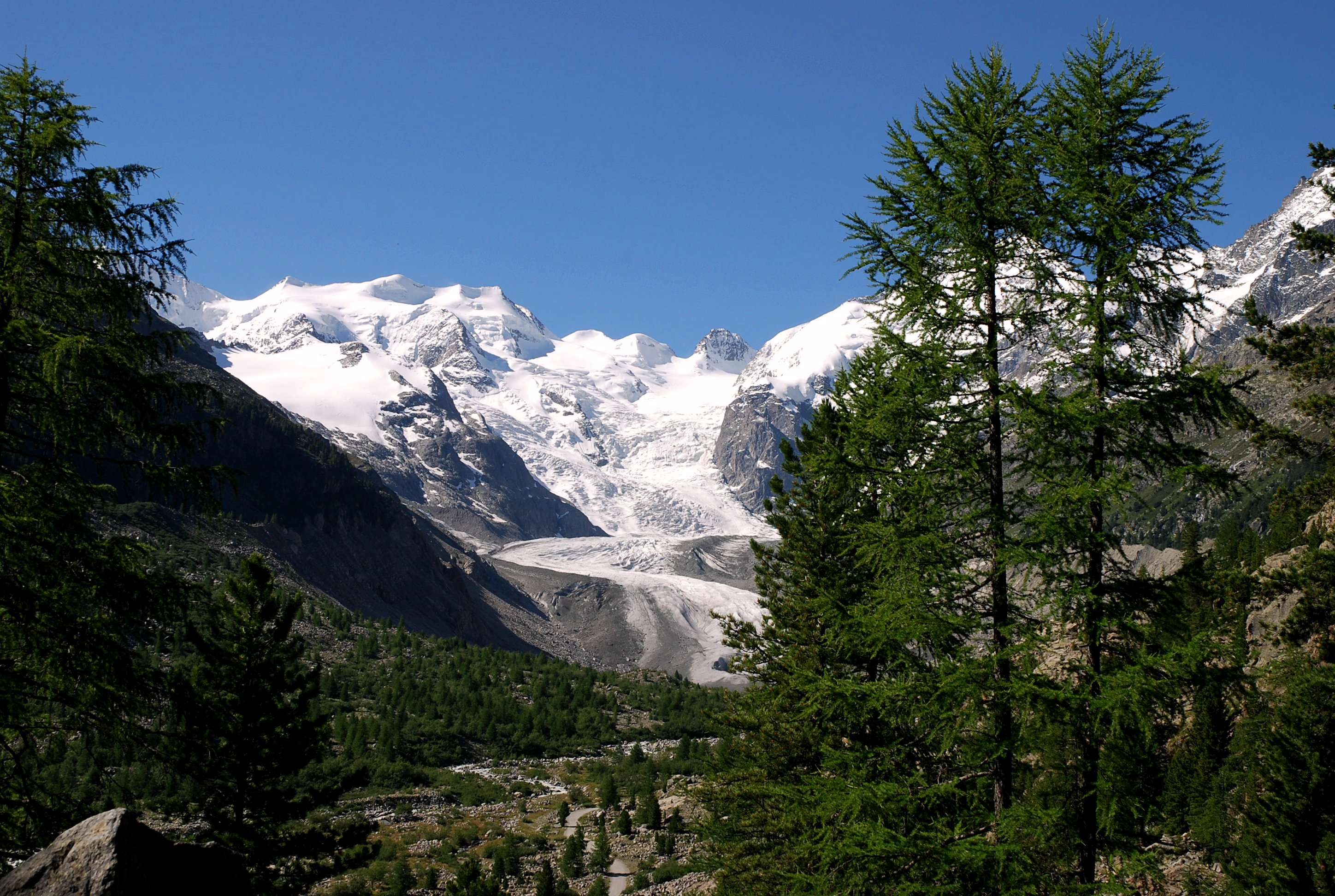 Morteratsch Glacier, Graubünden